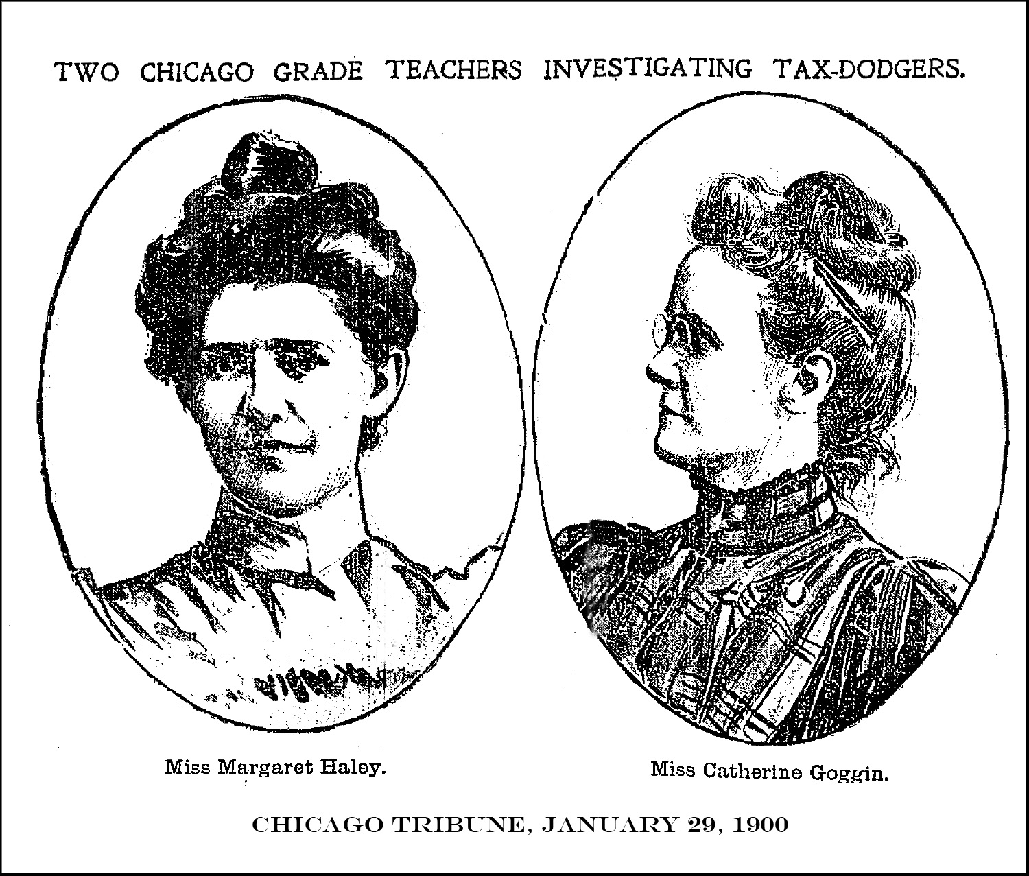 Portrait of two Chicago labor leaders from the Chicago Tribune